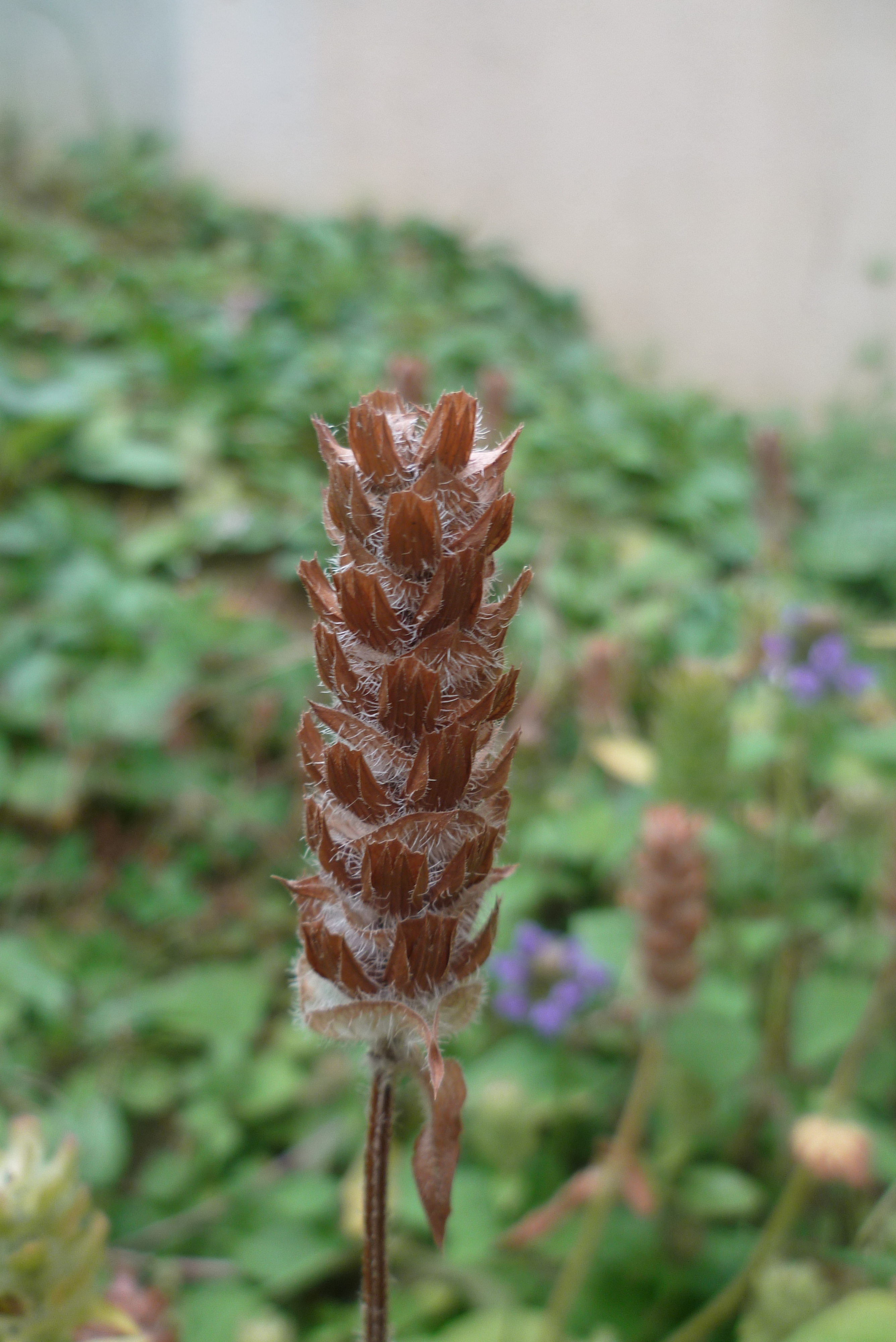 Prunella vulgaris épi fructifère